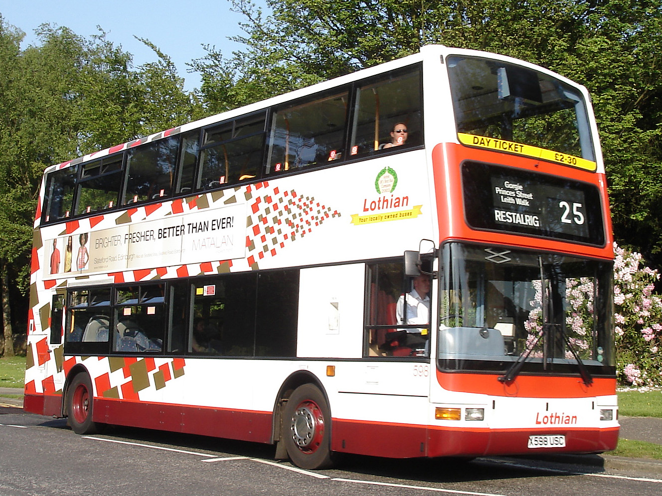 Lothian Buses bus 598 (reg. X598 USC), a 2000 Dennis Trident double-decker with Plaxton President bodywork, wearing Harlequin livery. Pictured approaching the Heriot-Watt University terminus in Riccarton, preparing to depart back across the city on route 25 to Restalrig.